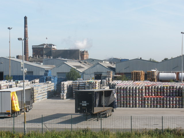 Marstons Brewery September 2009 Marstons Brewery seen through a Coors yard.